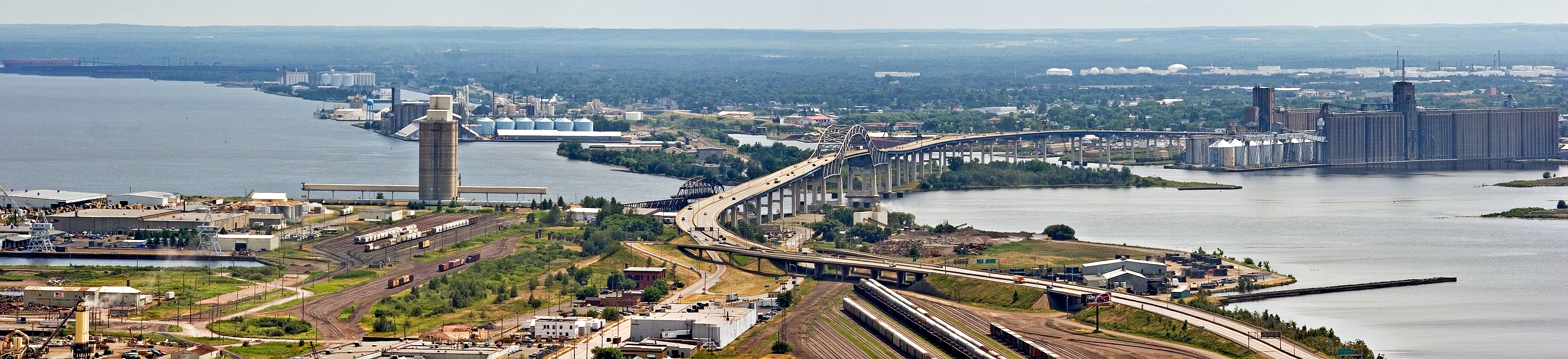 John A. Blatnik Bridge, showing Duluth, Minnesota and Superior, Wisconsin.